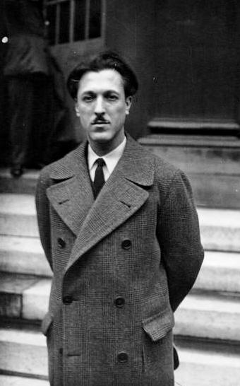 Picture of Mario Tozzi